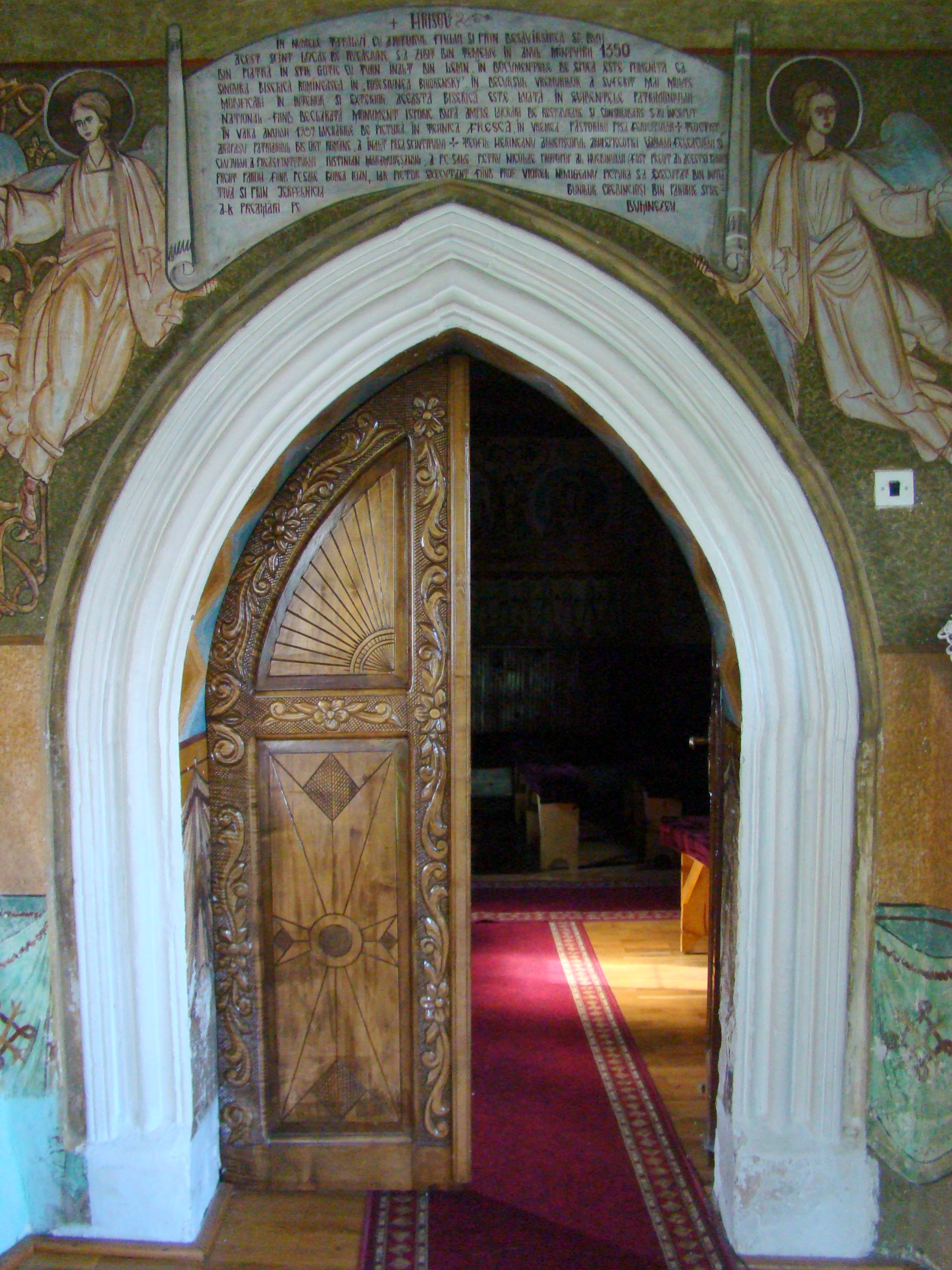 The church of the Holy Ascension of God in Bedeciu, Cluj county, Romania